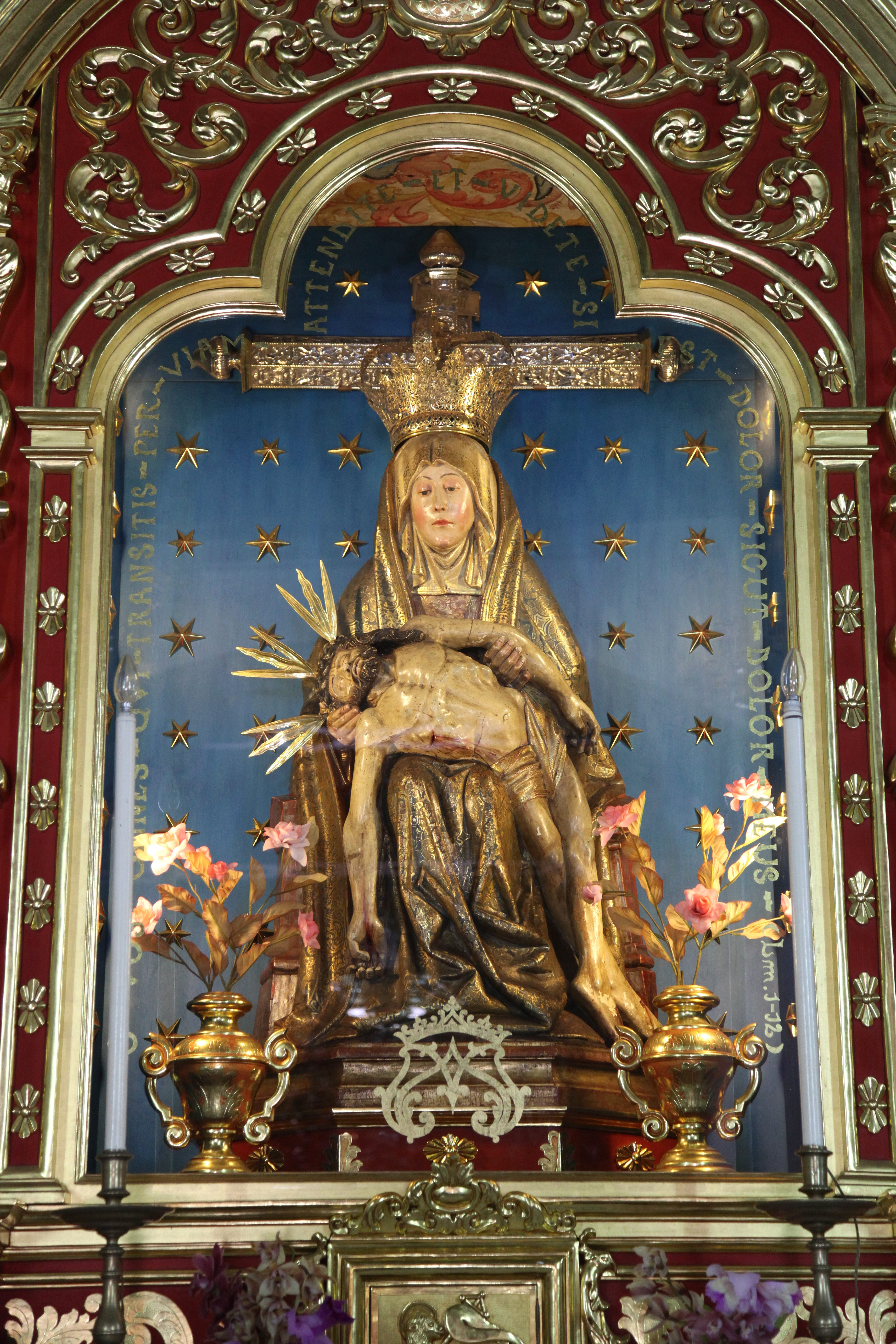 Santuario de Nuestra Señora de Las Angustias, Carretera Las Angustias El Puerto (LP-120) in Los Llanos de Aridane, La Palma, Canary Island, Spain